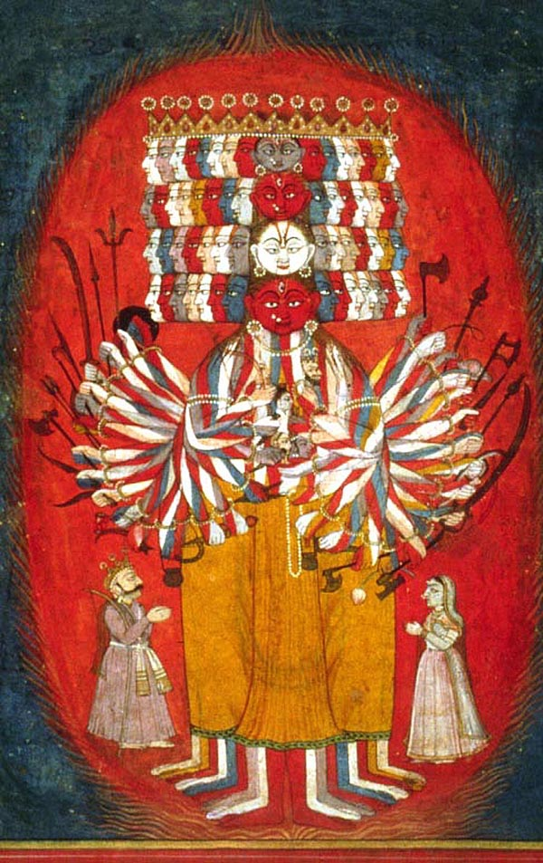 Panjab Hills, Bilaspur. Opaque watercolor and gold on paper, ca. 1740